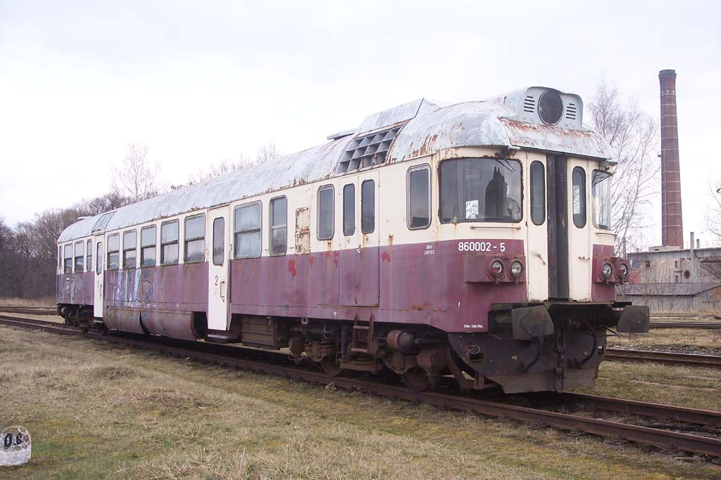 Rail car class 680 laid up in PP Meziměstí